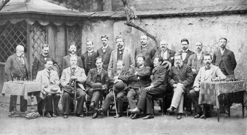 Participants of the Vienna 1898 chess tournament